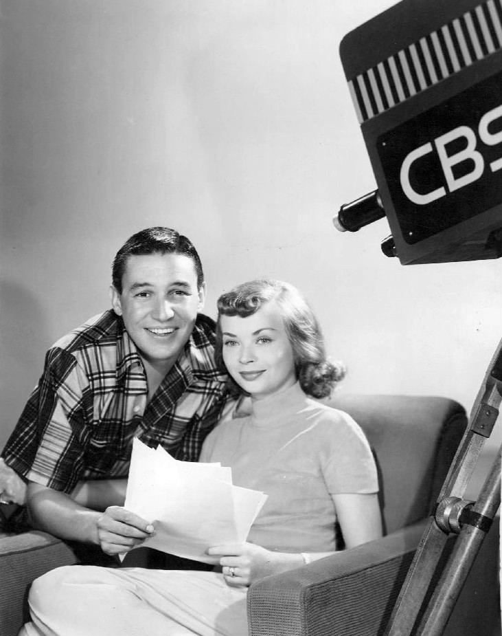 Publicity photo of Mike Wallace and Buff Cobb, who were married at the time, for one of television's first talk programs, Mike and Buff.